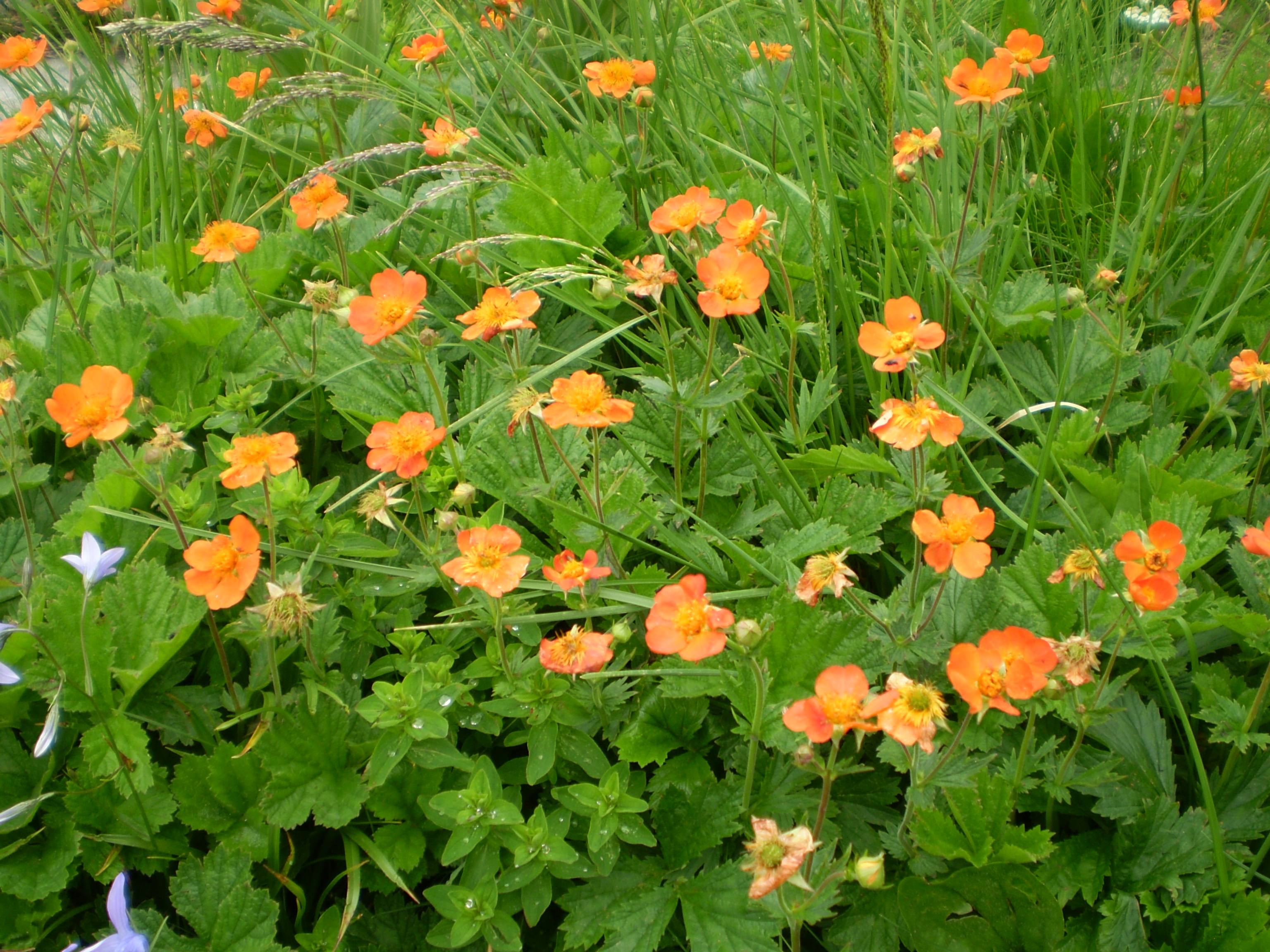 Geum bulgaricum